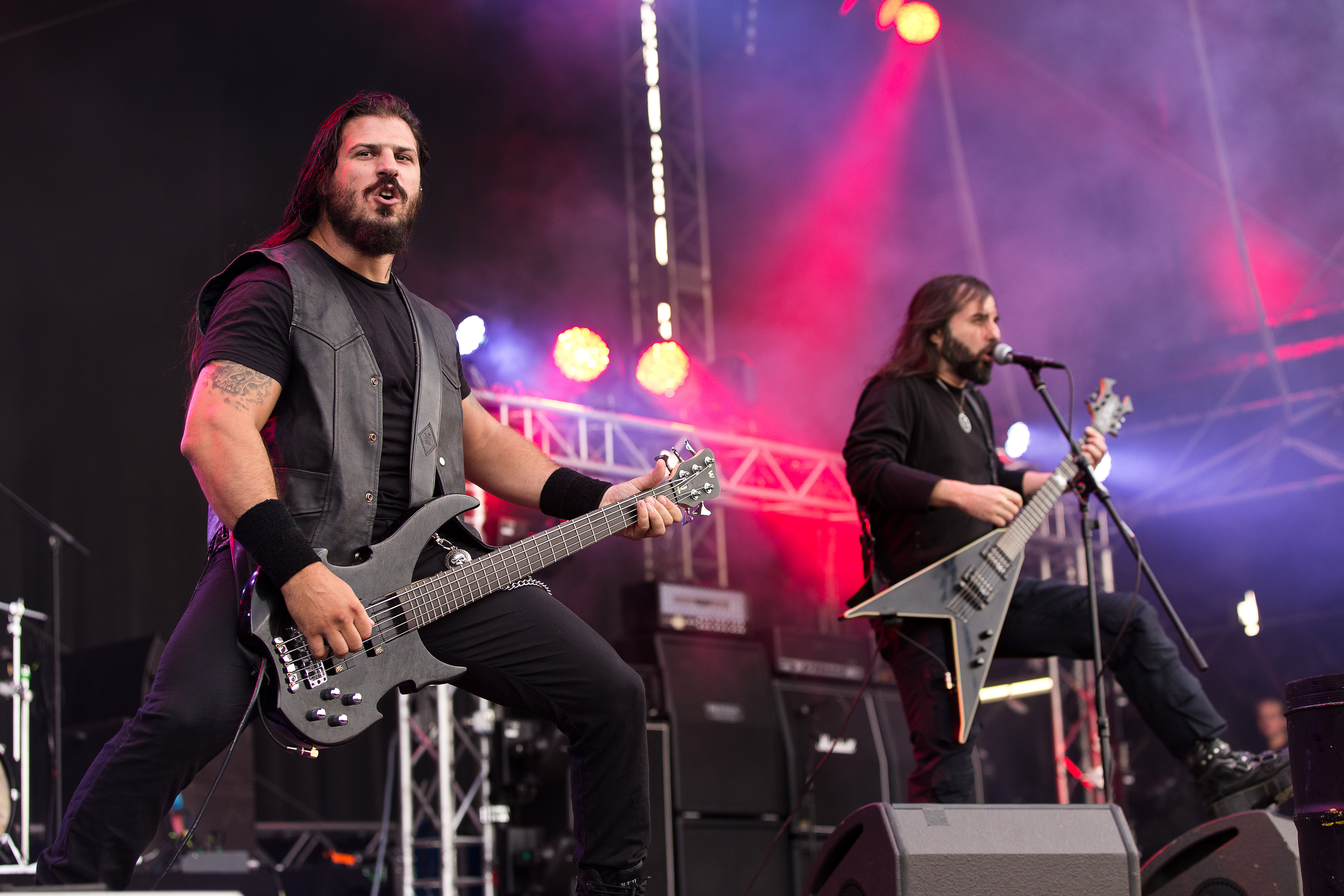 The Greek metal band Rotting Christ at the Party.San Open Air 2015 in Obermehler-Schlotheim/Germany.